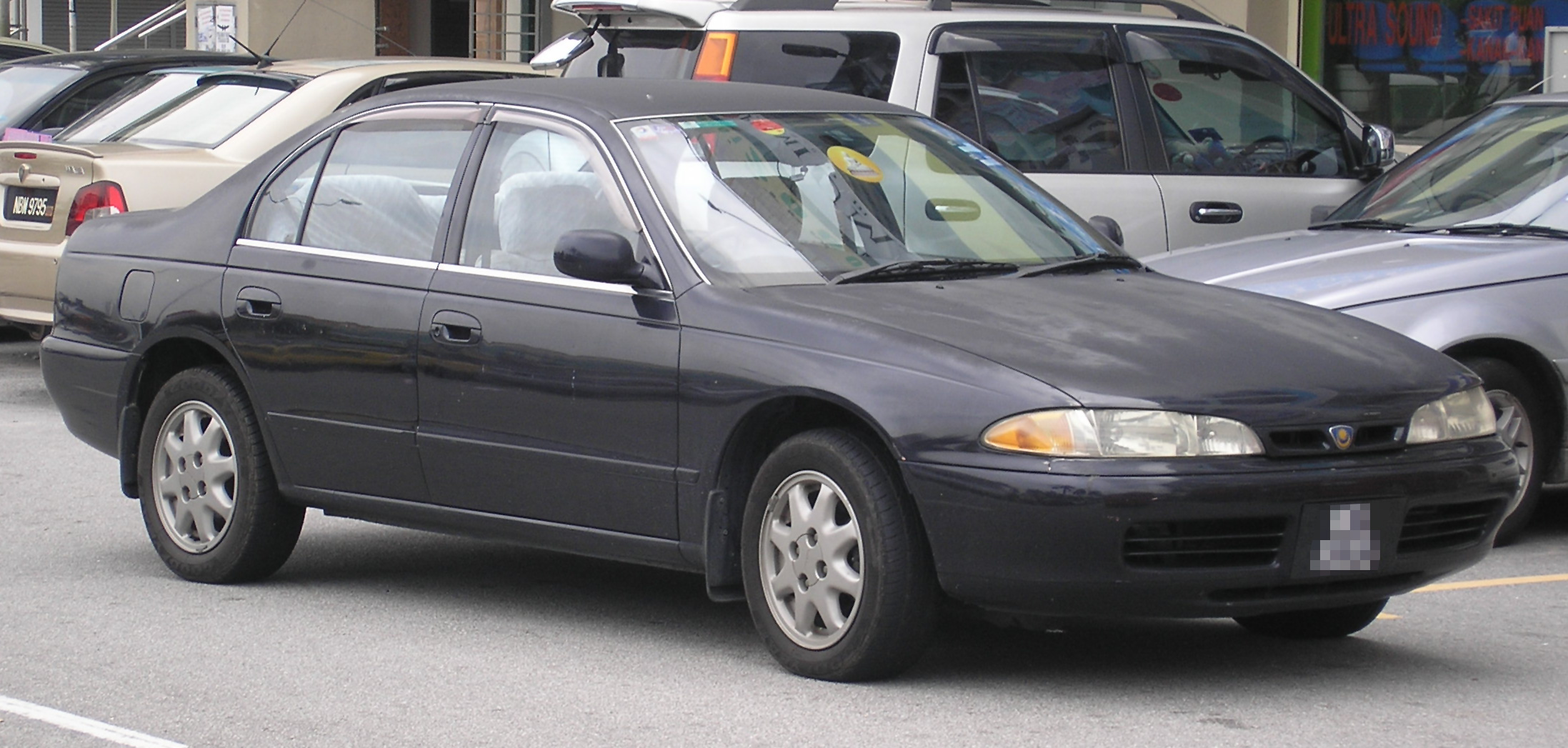 The front of a first generation Proton Perdana, in Serdang, Malaysia.